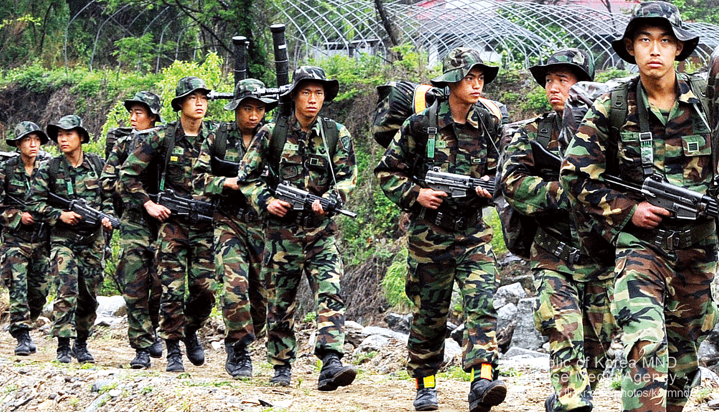 2009 국방화보 Rep. of Korea, Defense Photo Magazine 천리행군을 실시하는 육군27사단 수색대대 장병들.